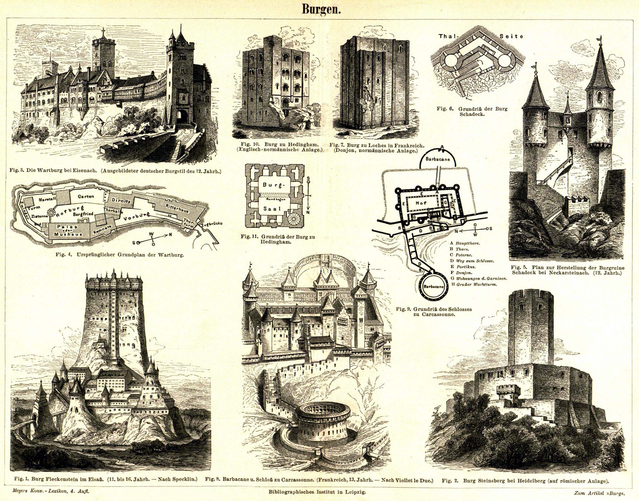 castles